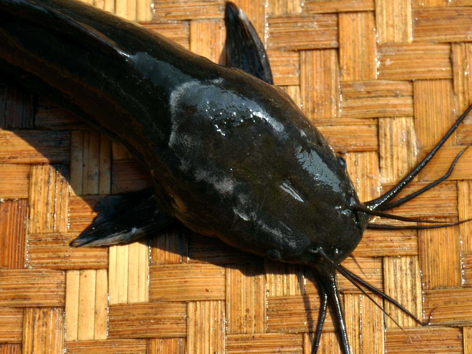 Walking catfish, Clarias batrachus; from Lumajang, East Java, Indonesia. Head close up; note the round occipital process (whitish mark) and it's distance from the dorsal fin beginning. It's anterior fontanelle is 'knife shaped'.